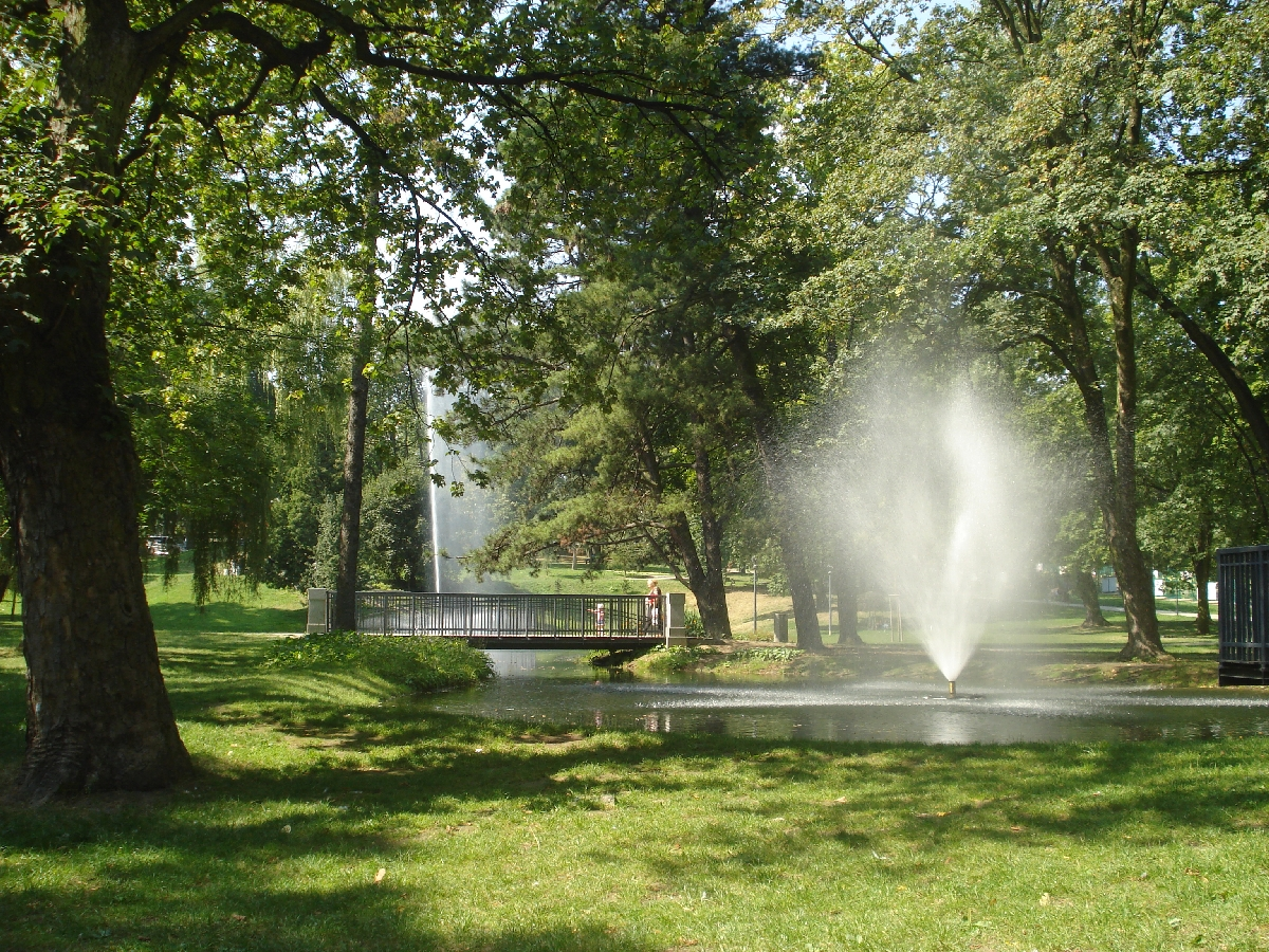 Stanisław Staszic's Park in Częstochowa, Poland